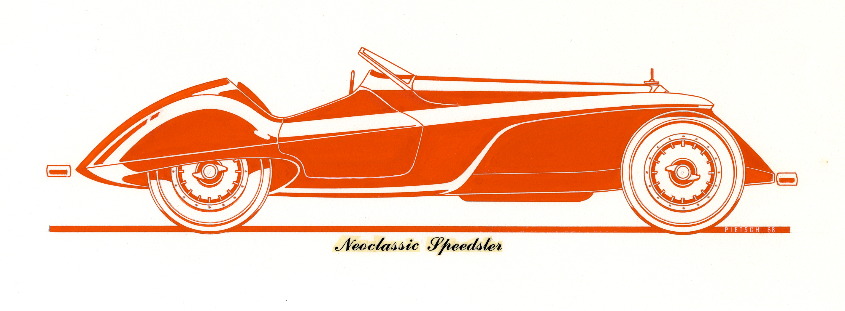 The original drawing has been donated to the Museum of Fine Arts, Boston, but the image posted here was made by me, T. W. Pietsch III. Please see the correspondence below from Jennifer C. Riley, Head of Image Licensing and Digital Archives Museum of Fine Arts, Boston. You may tell them that while the Museum of Fine Arts, Boston owns the artwork; we do not retain the copyright to Theodore Wells Pietsch II’s images. Best, Jennifer Jennifer Riley Head of Image Licensing and Digital Archives Museum of Fine Arts, Boston | 617-369-3777 Dear Mr. Pietsch, Regarding copyright, you retain copyright to any photos you took of the drawings made by your father. The copyright to the artworks and photographs does not revert to the Museum automatically upon donation of the works. The copyright to the photographs that you took stays with you so you have every right to upload those photos to Wikipedia. I am happy to provide you with language necessary for you to pass on to Wikipedia so you can reload the images. Since the Museum does not, in fact, hold the copyright to those photos, we cannot upload them. Best, Jennifer Jennifer Riley Head of Image Licensing and Digital Archives Museum of Fine Arts, Boston | 617-369-3777